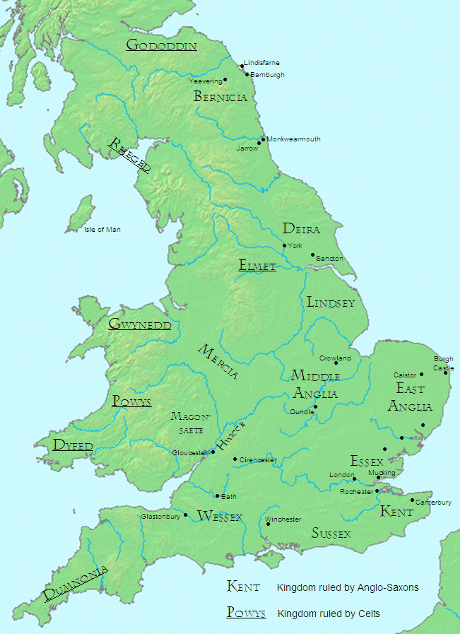 Map of England and Wales, showing Anglo-Saxon and Celtic kingdoms as of c. 600. Redrawn from a map in James Campbell, The Anglo-Saxons, Penguin Books, 1991.